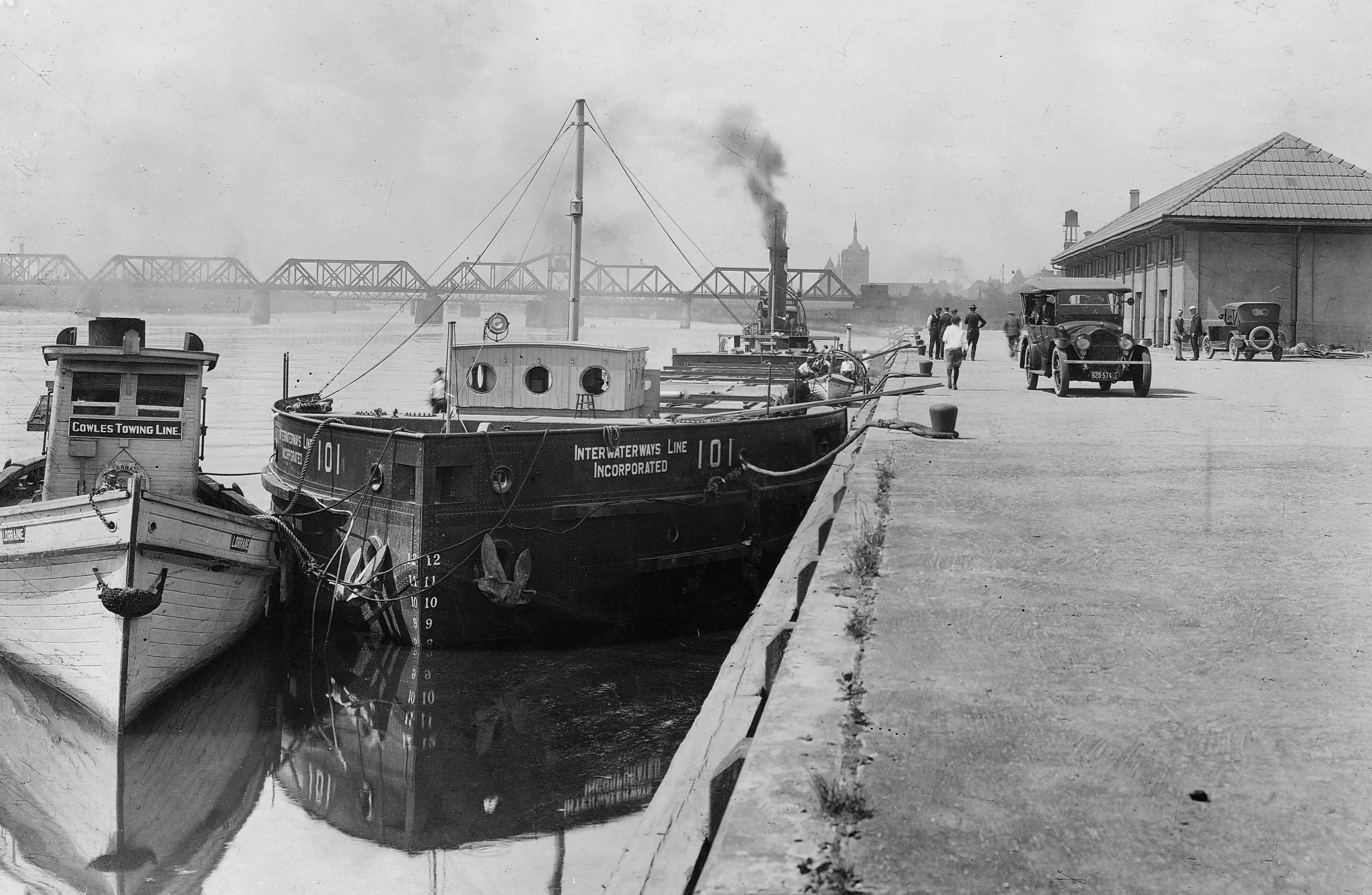 The Day Peckinpaugh docked at Albany's Corning Preserve on it's maiden voyage in 1921.